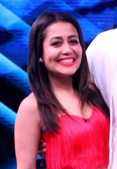 Neha Kakkar and Himansh Kohli snapped on the sets of the show High Fever